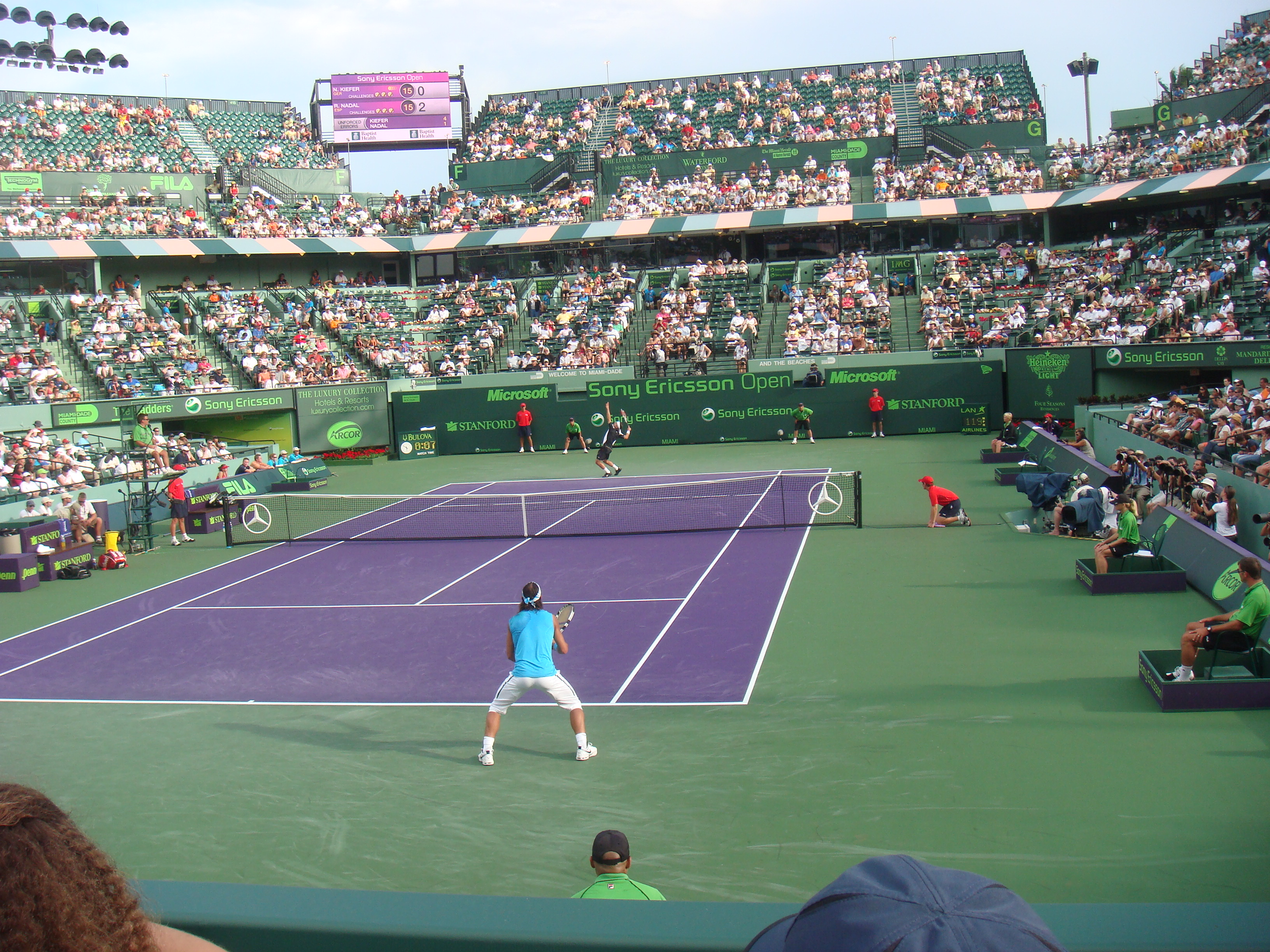 Nicolas Kiefer serving to Rafael Nadal @ Miami, March, 2008